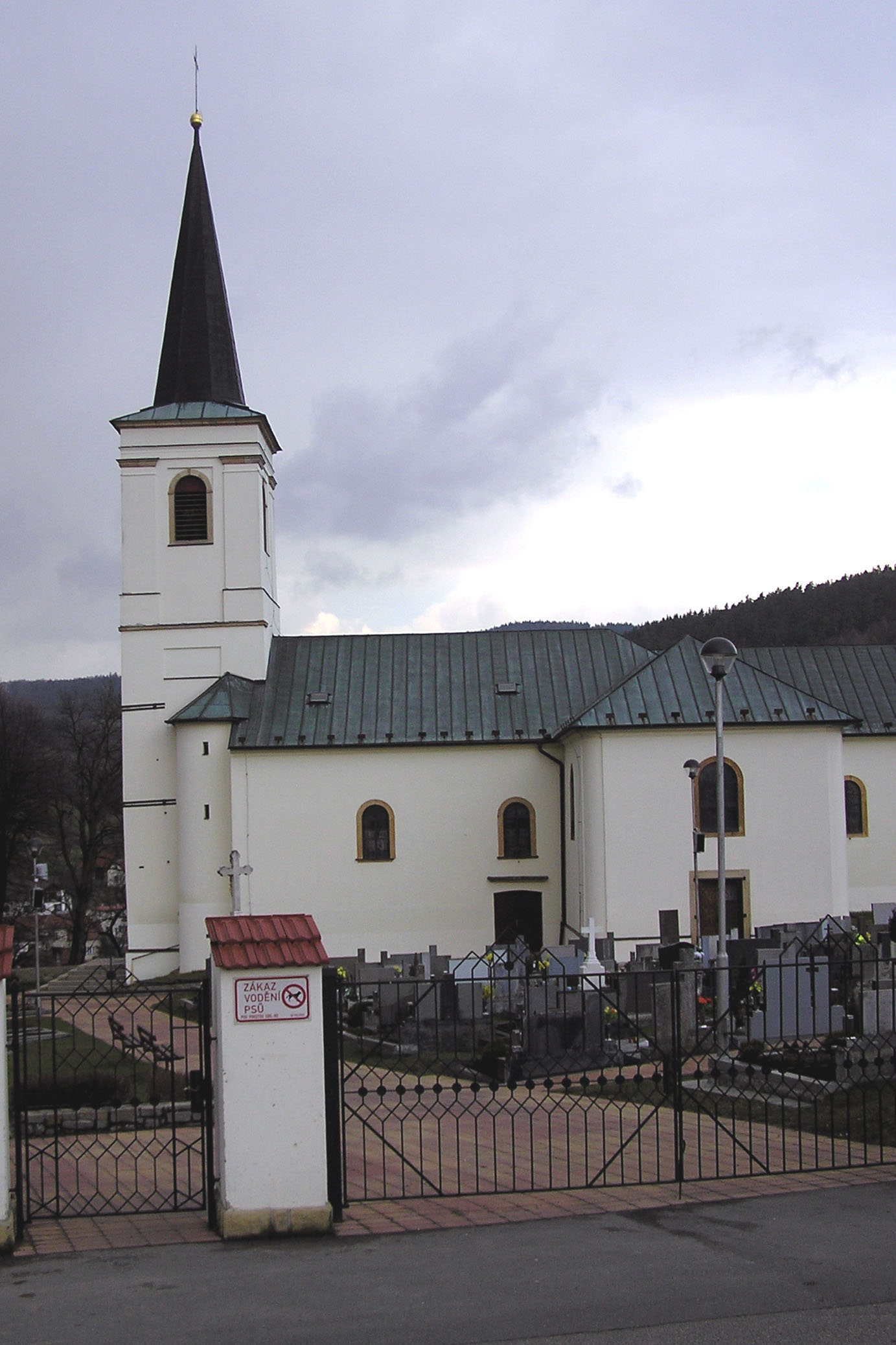 St Martin church in Pozlovice, Zlín District, Czech Republic